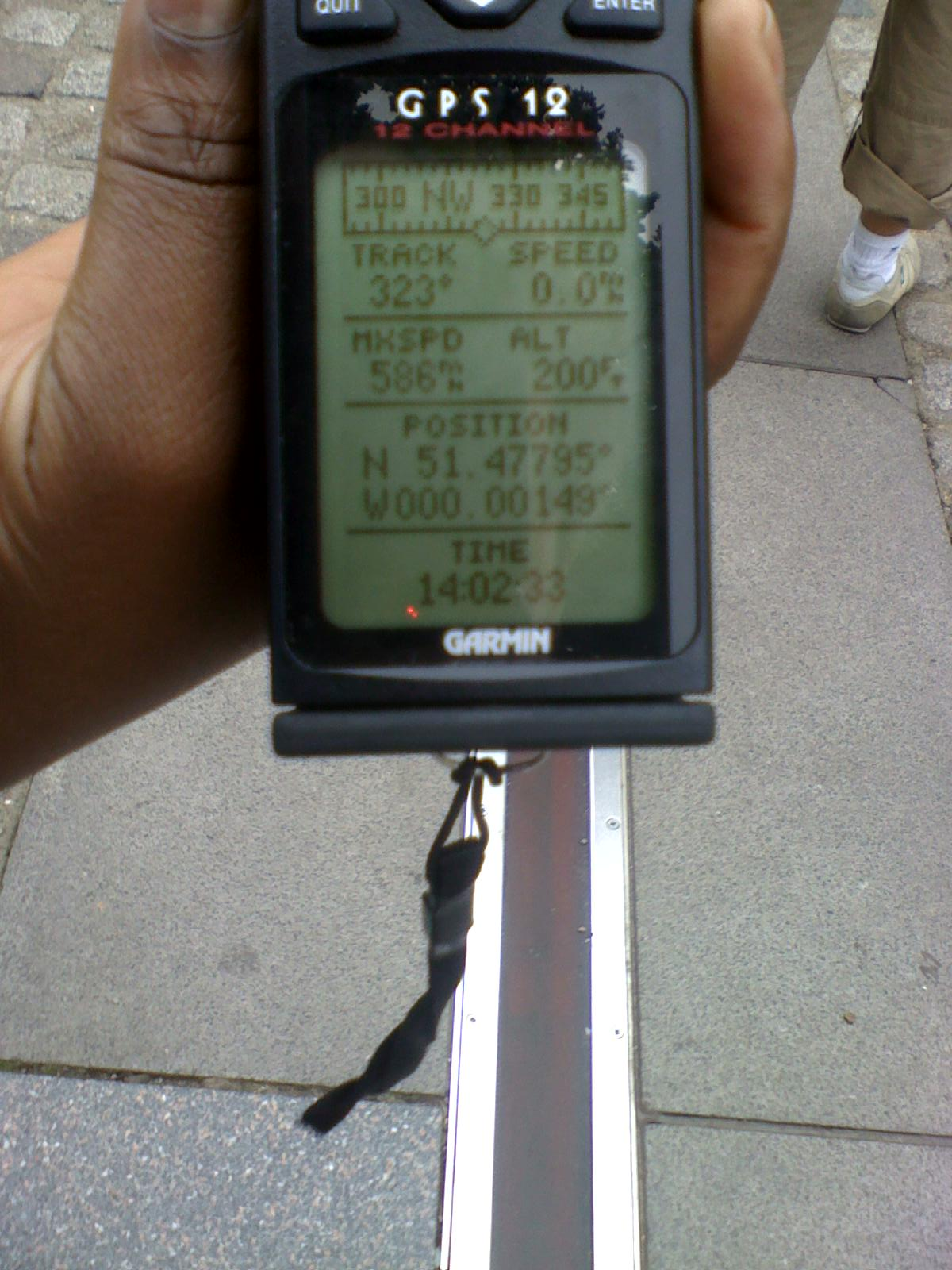 Description: A GPS receiver held over the Meridian Line at Greenwich does not read a longitude of 0. Source: J Cohen (jckcip) Date: 23rd July 2007 Location: Greenwich, London, UK Author: J Cohen Permission: Creative Commons Attribution